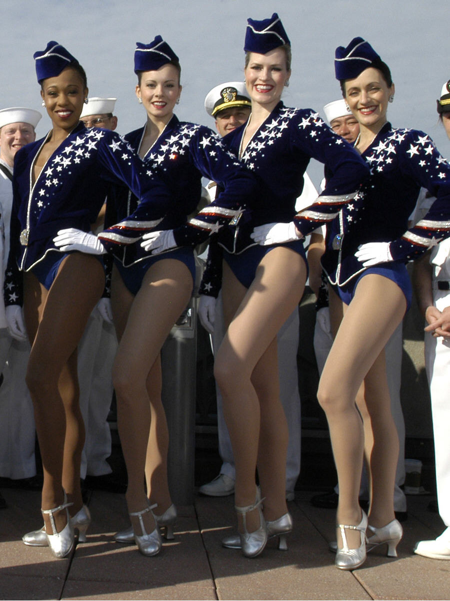 060525-N-9640H-003 New York (May 25, 2006) - Television personality and weatherman Mr. Al Roker interviews the famous Radio City Rockettes and Sailors from several ships participating in Fleet Week New York 2006. U.S. Navy photo by Photographer's Mate 2nd Class Gabriela Hurtado (RELEASED)